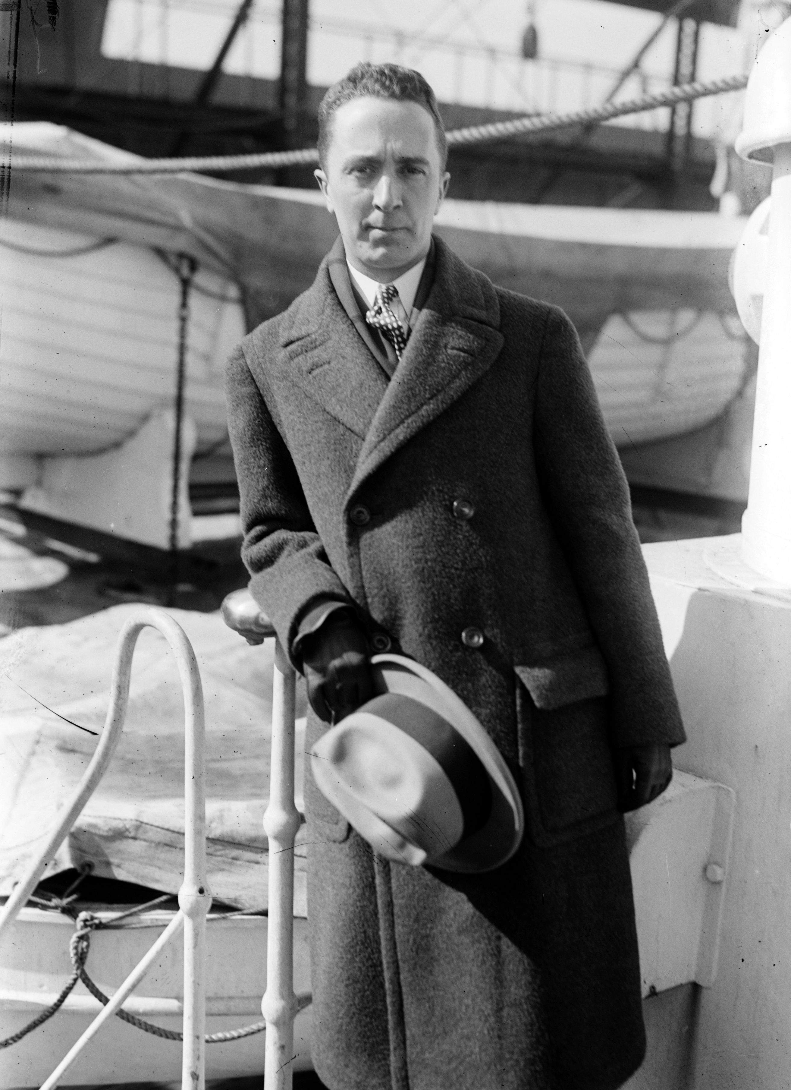 Norman Rockwell